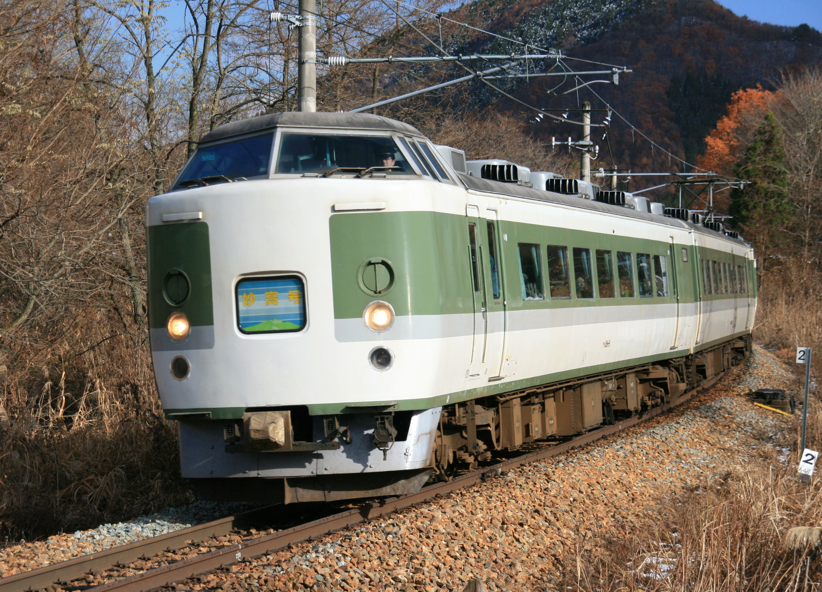 JR East 189 series EMU set N102 on a Myoko rapid service on the Shinetsu Main Line between Furuma and Kurohime stations